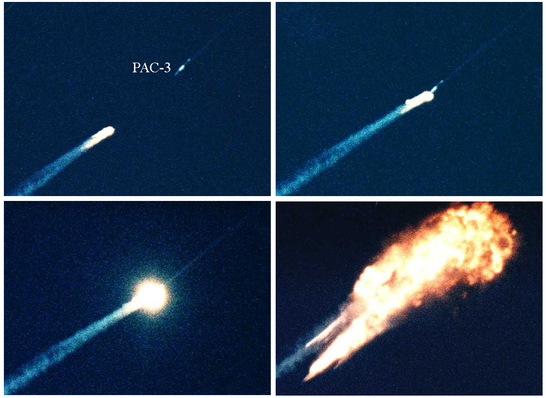 PAC-3 interception